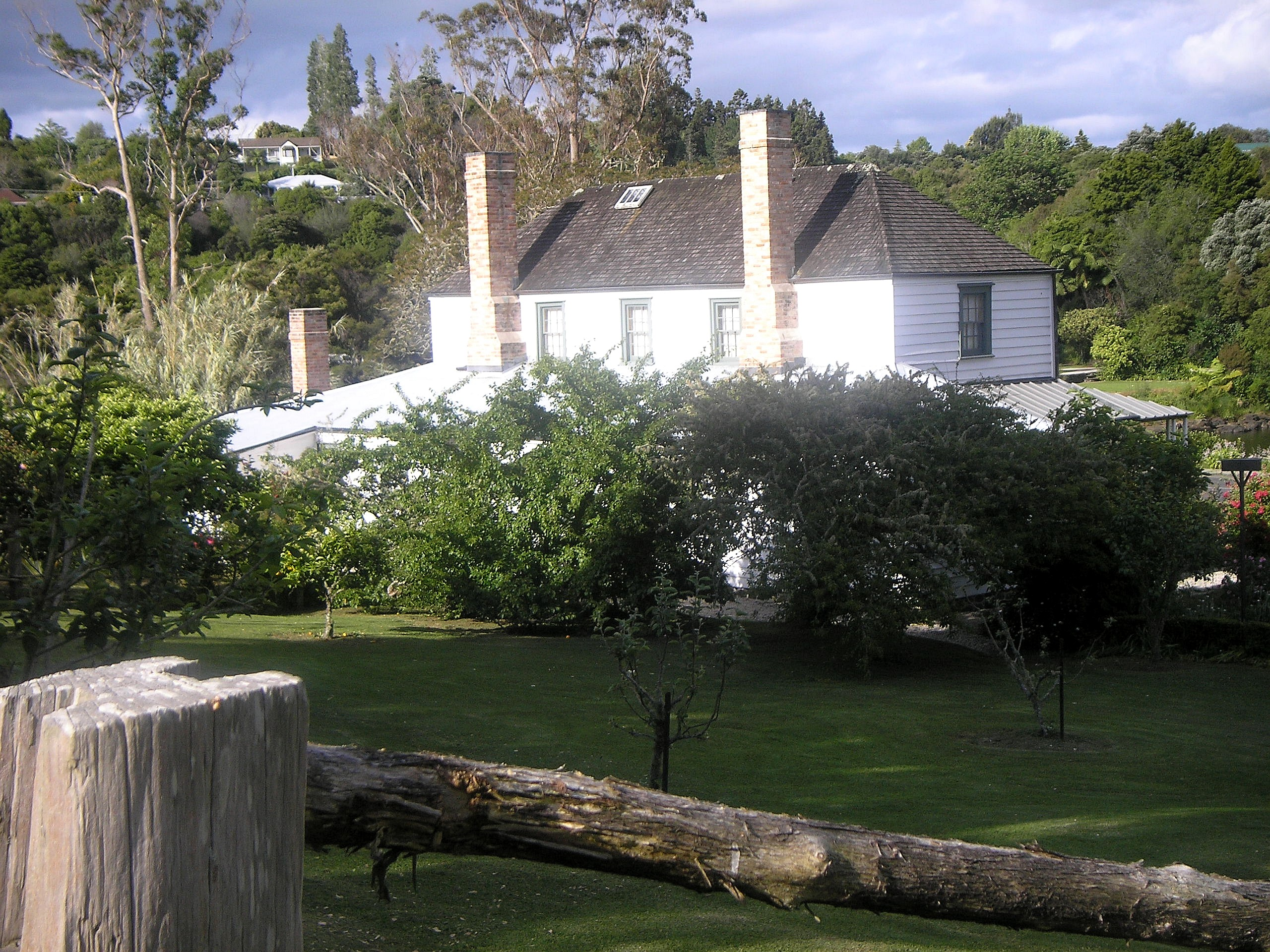 photographed by author 2006